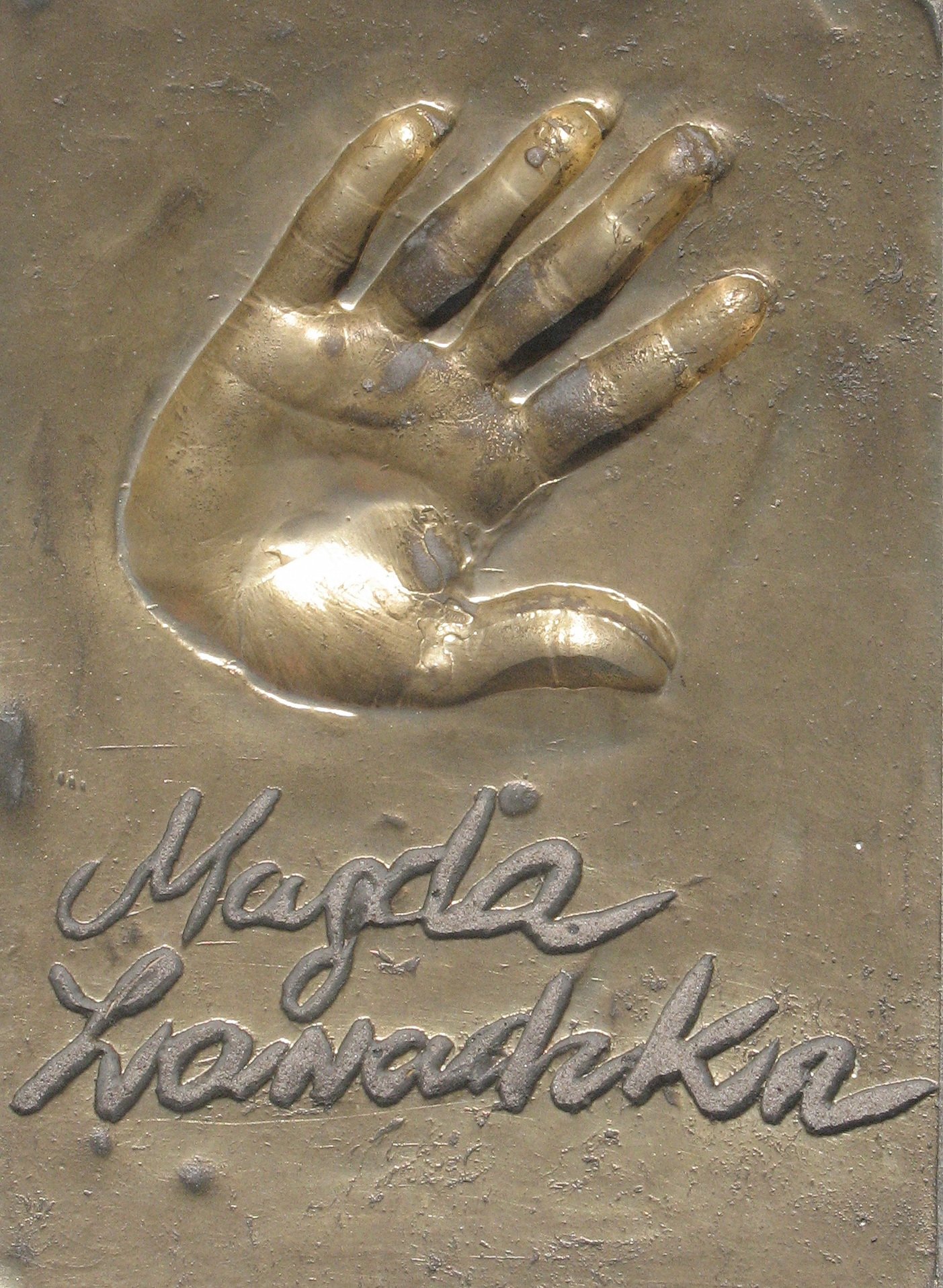 Magda Zawadzka - handprint and signature in Międzyzdroje.